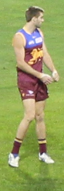 Jordan Bourke at a game against Adelaide on 27 June 2015.